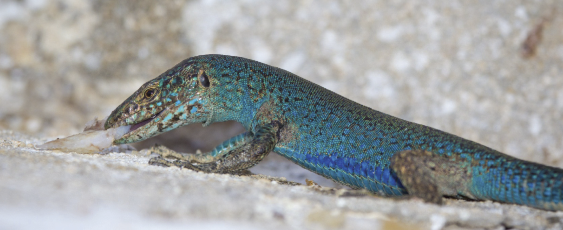 Scavenging: an Ibiza wall lizard (Podarcis pityusensis) scavenging on fish scraps leftover from another predator (Photo: Nate Dappen/Day’s Edge Productions).